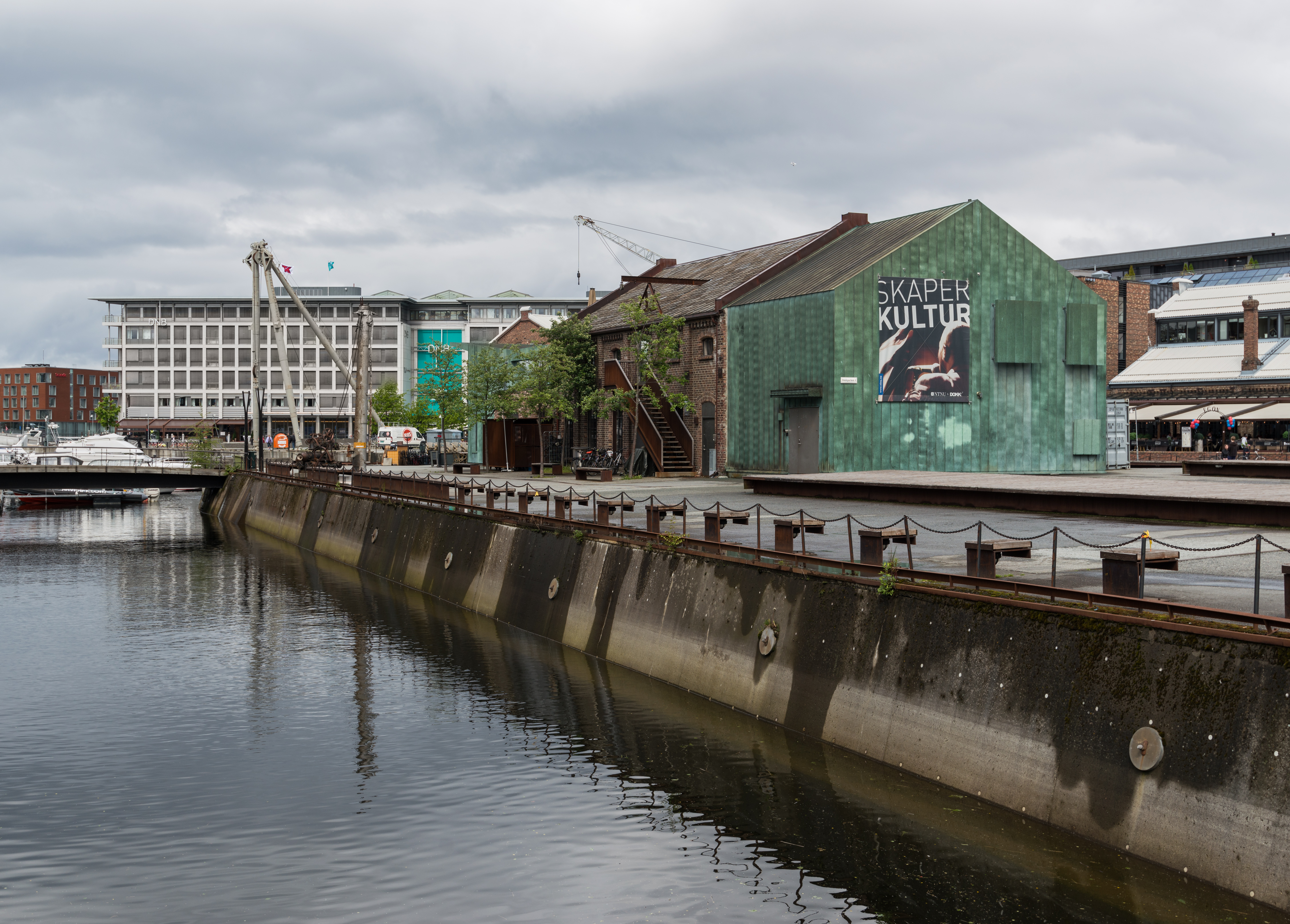 A south view of Dokkhuset in Trondheim